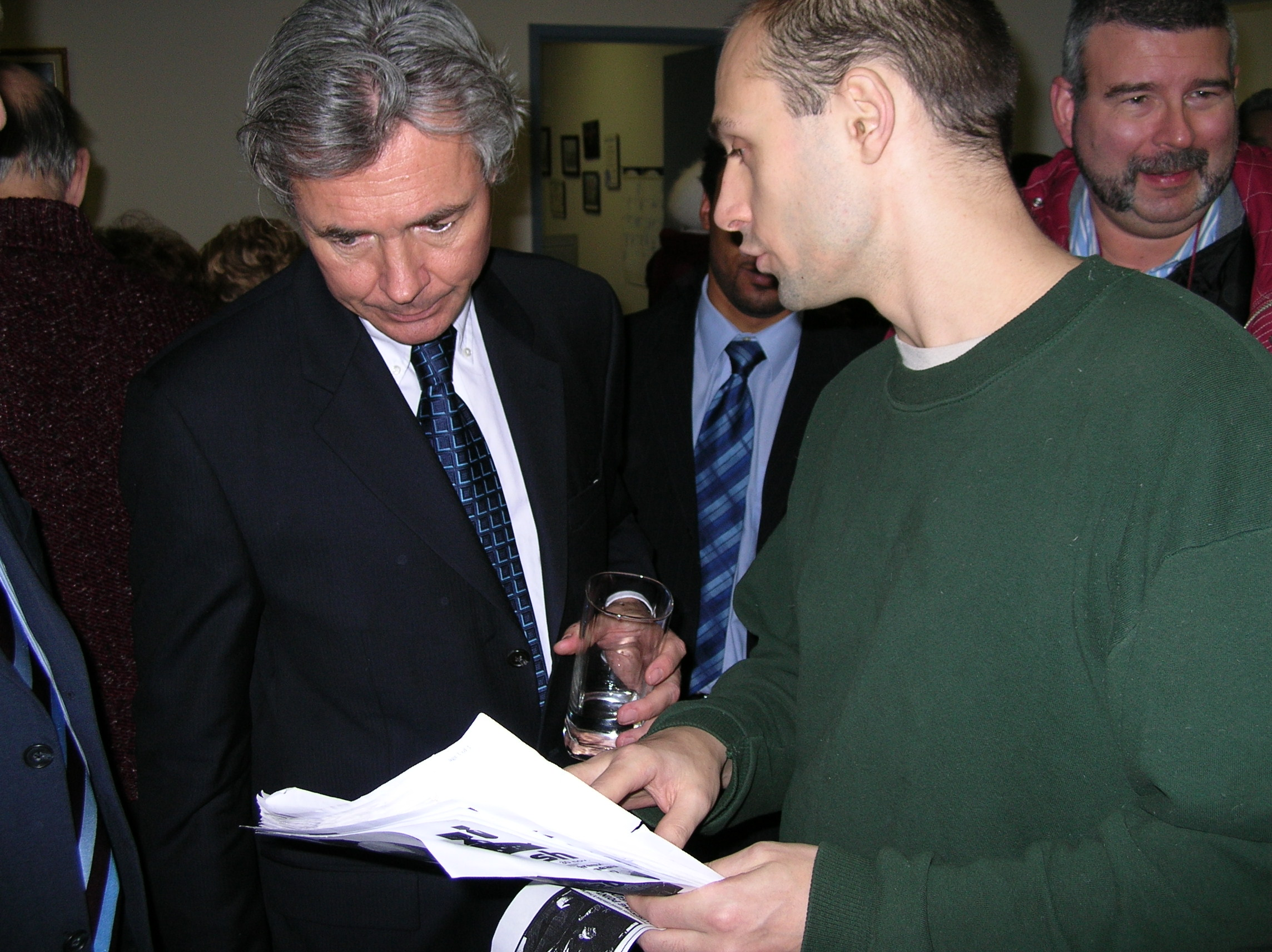 Yves Engler presenting Canadian Foreign Affairs Minister Pierre Pettigrew with a copy of the Griffin report on human rights abuses in Haiti